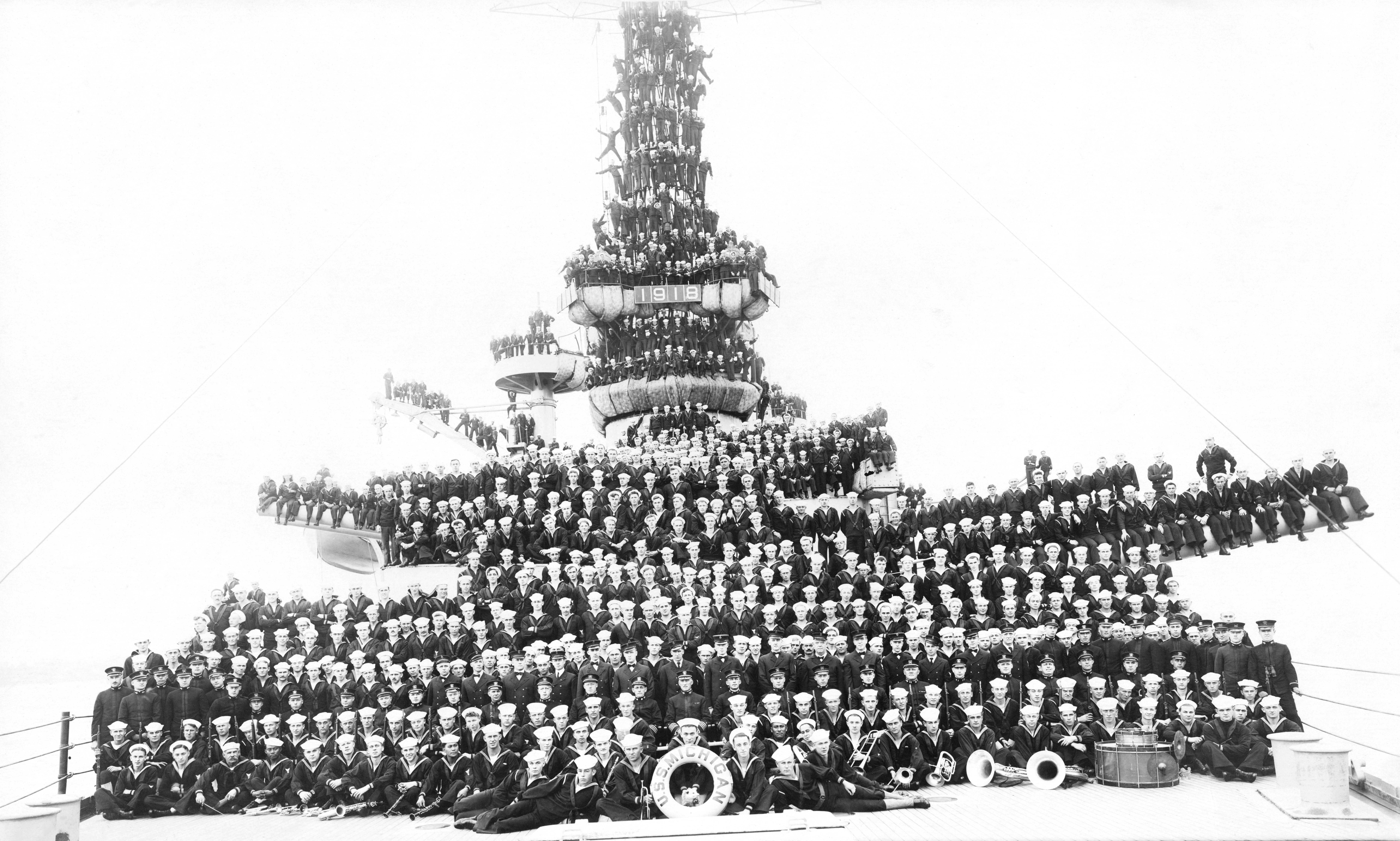 Photo #: NH 106439 USS Michigan (Battleship # 27) Ship's Officers and Crew, photographed on board in 1918 by O.W. Waterman, Hampton, Virginia. Note the ship's bandsmen seated in the front row with their musical instruments. The original photograph, given to USS Michigan (SSGN-727) by Mr. Sanford Aronoff, was donated by the ship to the Naval History and Heritage Command in 2008. U.S. Naval History and Heritage Command Photograph.